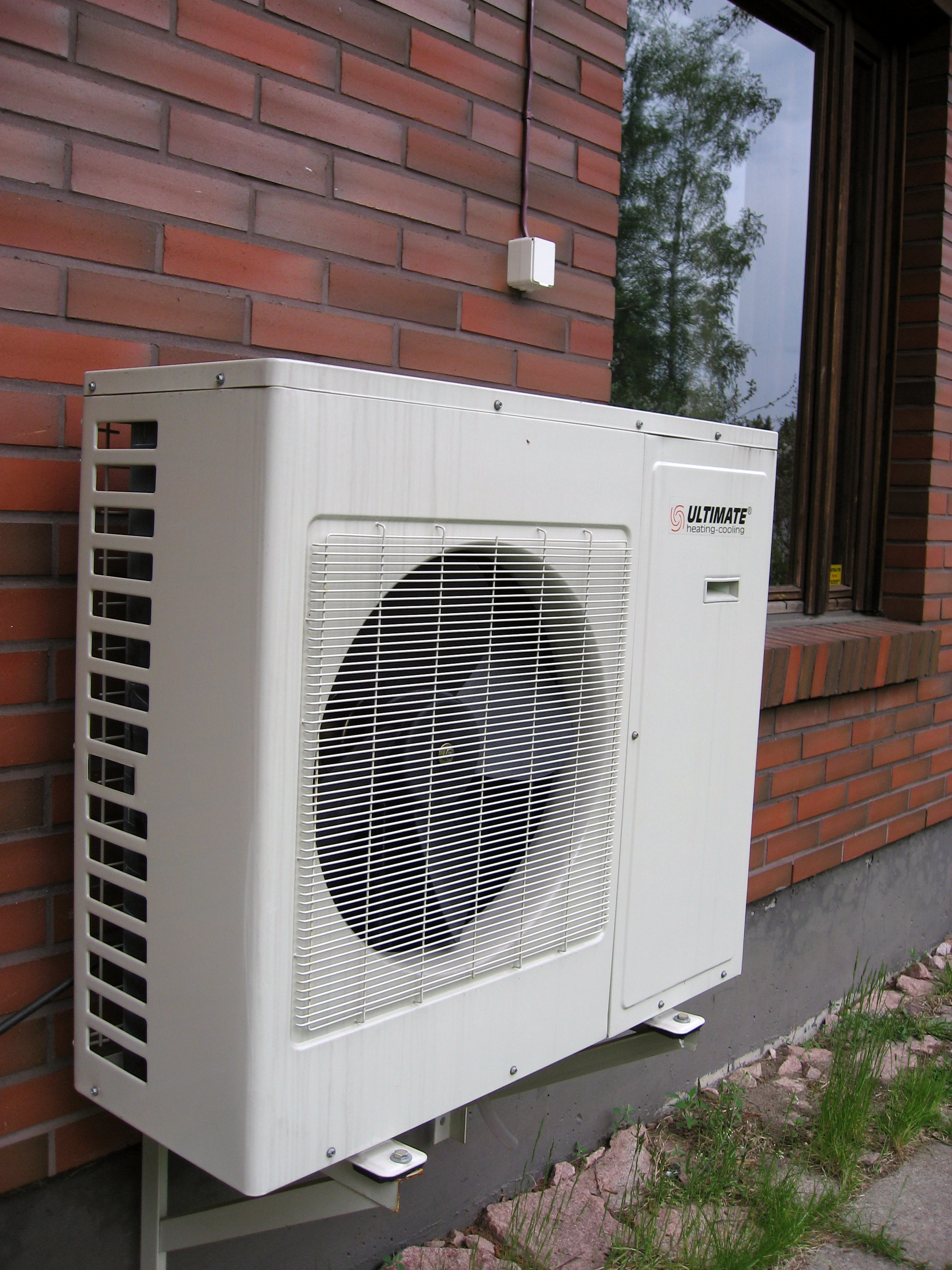 Outside unit of heat pump, actually our own.